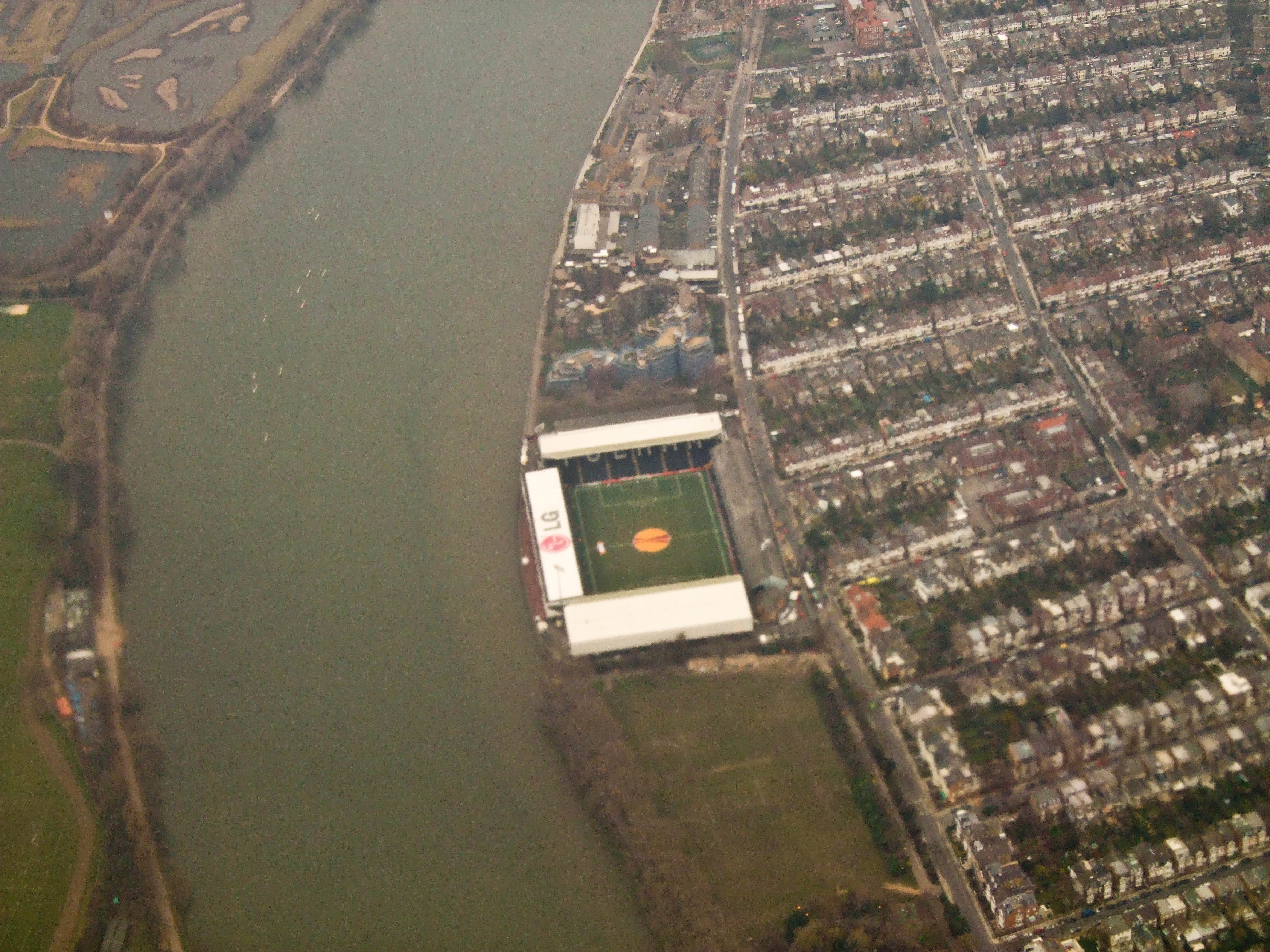 Aerial photograph of Craven Cottage and the River Thames